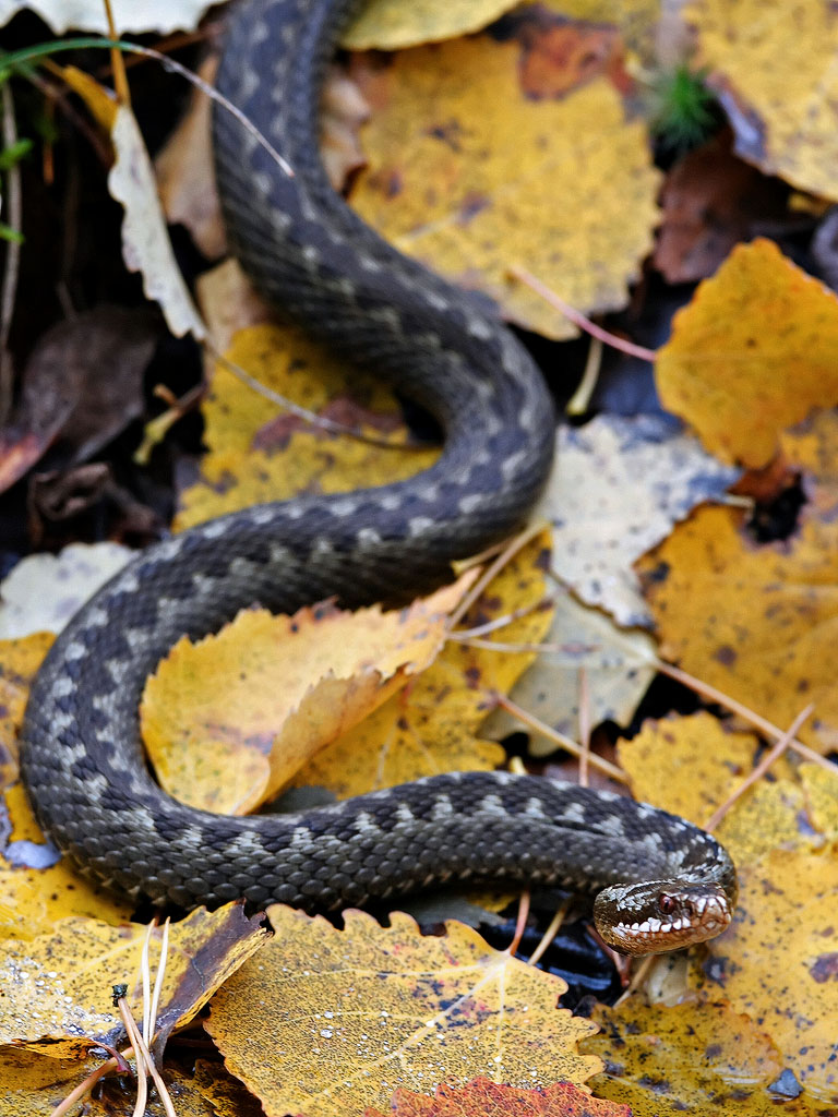 Common European Viper (Vipera berus) Dysmorodrepanis 14:36, 28 May 2008 (UTC)